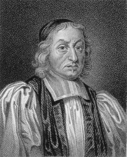 John Pearson (1612-1686)